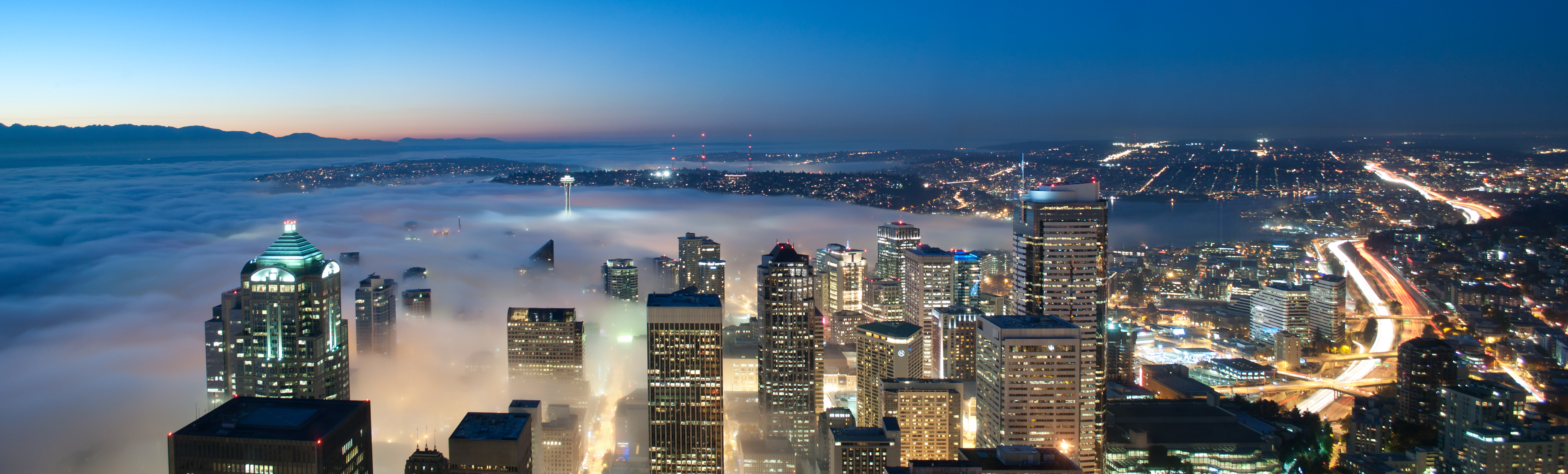 Seattle from the Sky View Observatory a top the Columbia Center.